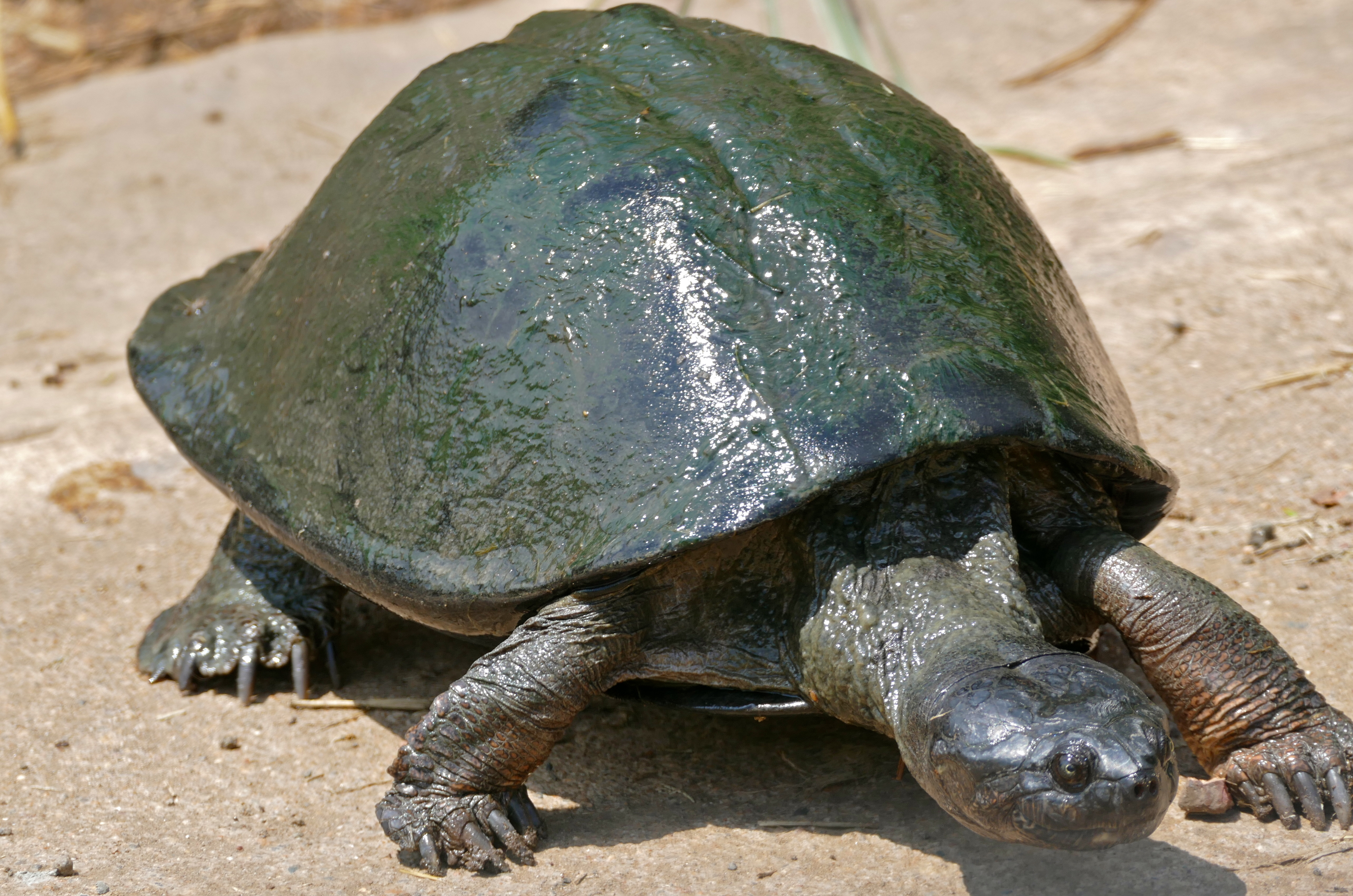 S100 Road East of Satara, Kruger NP, SOUTH AFRICA